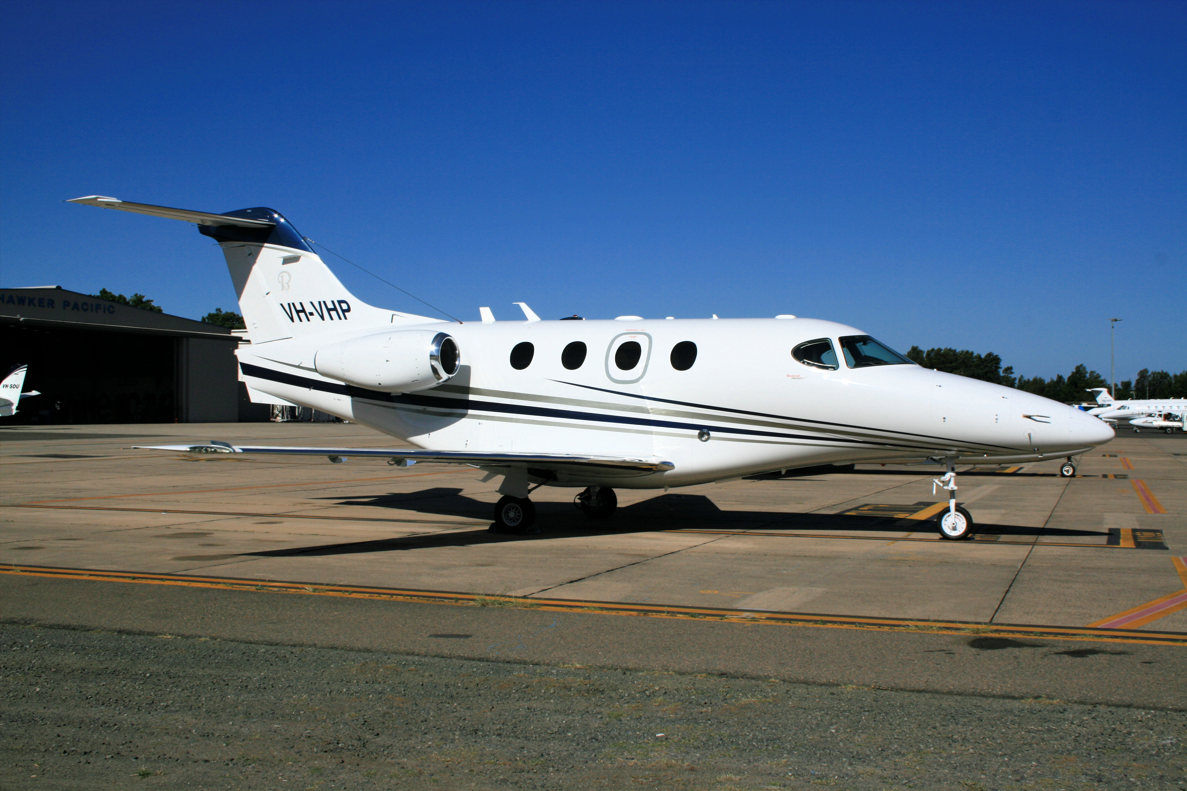 Raytheon Model 390 Premier One VH-VHP. The Premier One is an advanced design that takes advantage of Beechcraft's experience with Composite materials gained from the Starship programme. Digital photo taken at Sydney Airport.